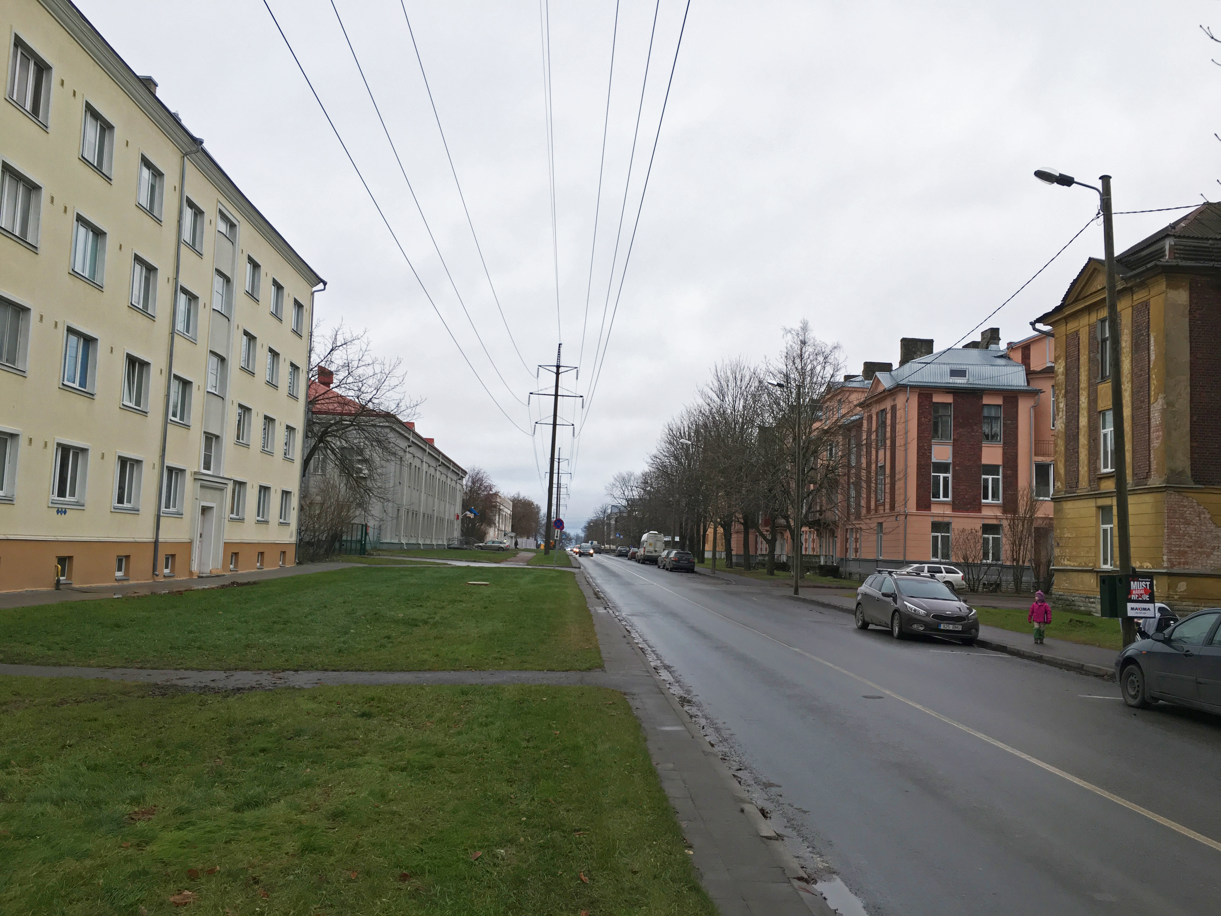 Erika Street, Tallinn, Estonia